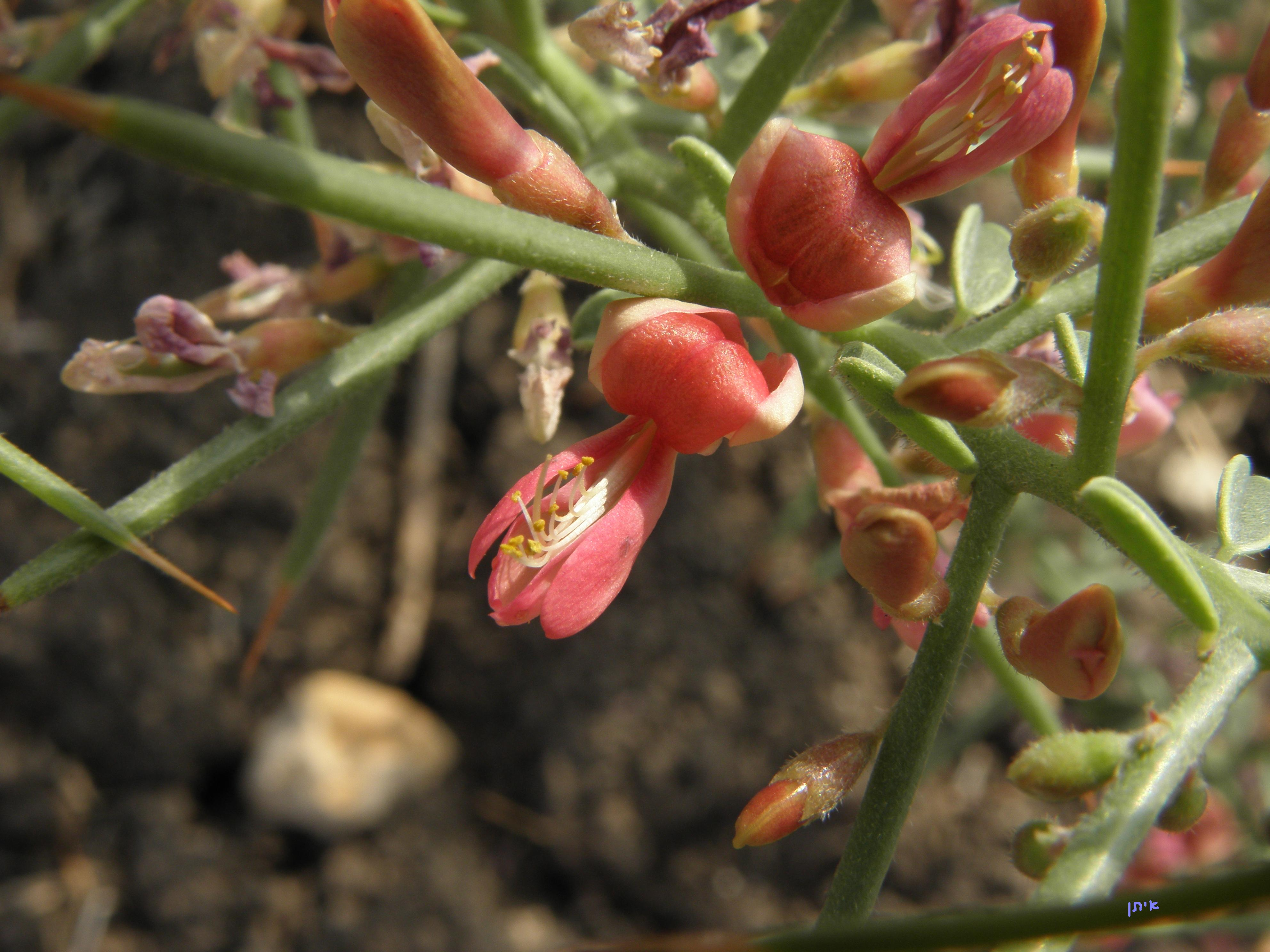 Camel Thorn flower - Alhagi maurorum הגא מצוי - פרח